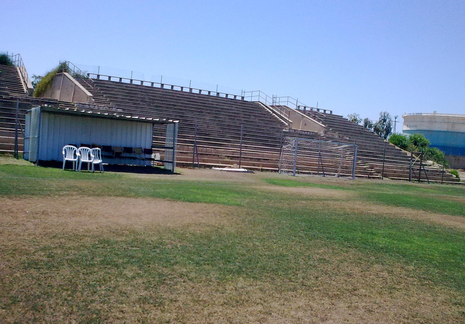 אצטדיון קריית חיים